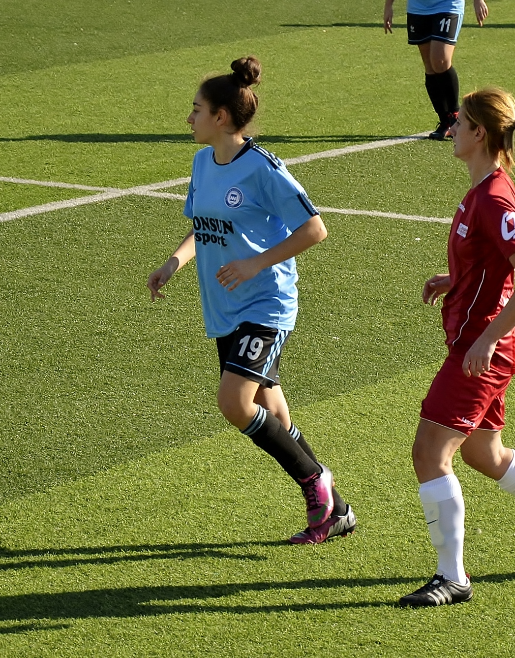 Başak Gündoğdu palying for Marmara Üniversitesi Spor in the 2013-13 season